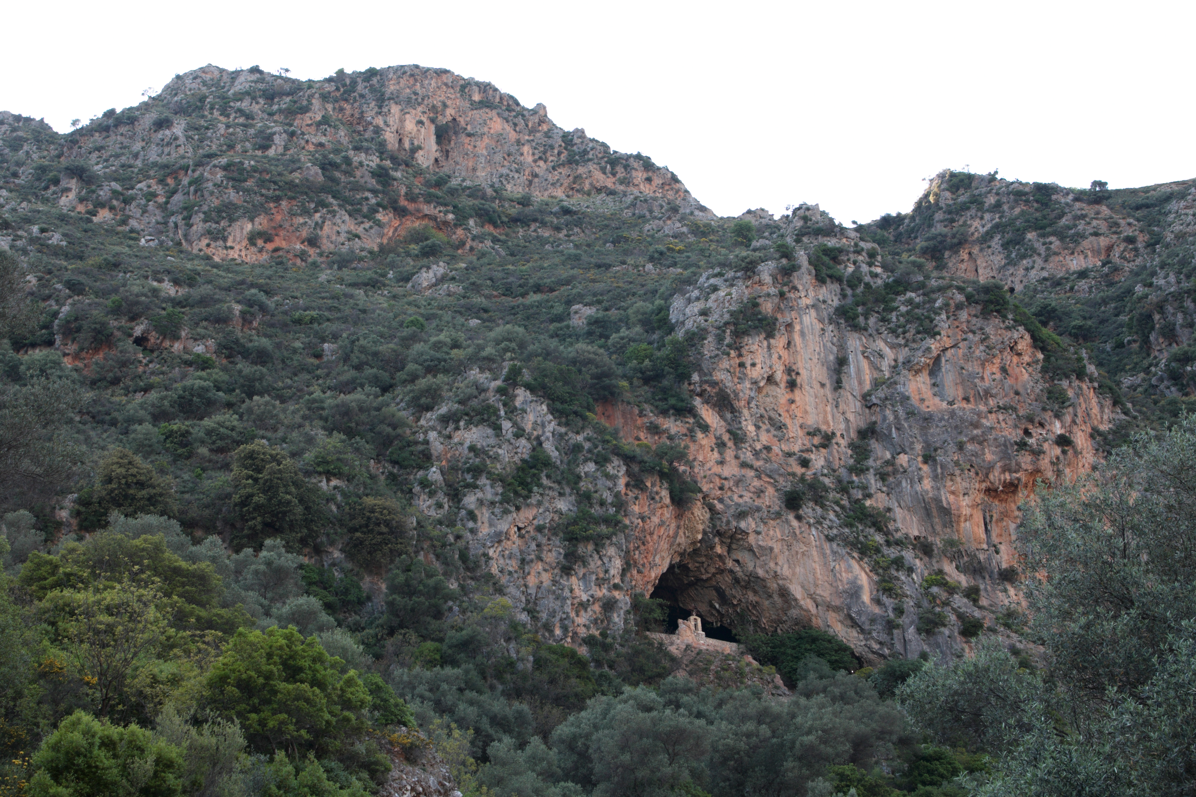 Topolia gorge – Agia Sofia chapel, Crete